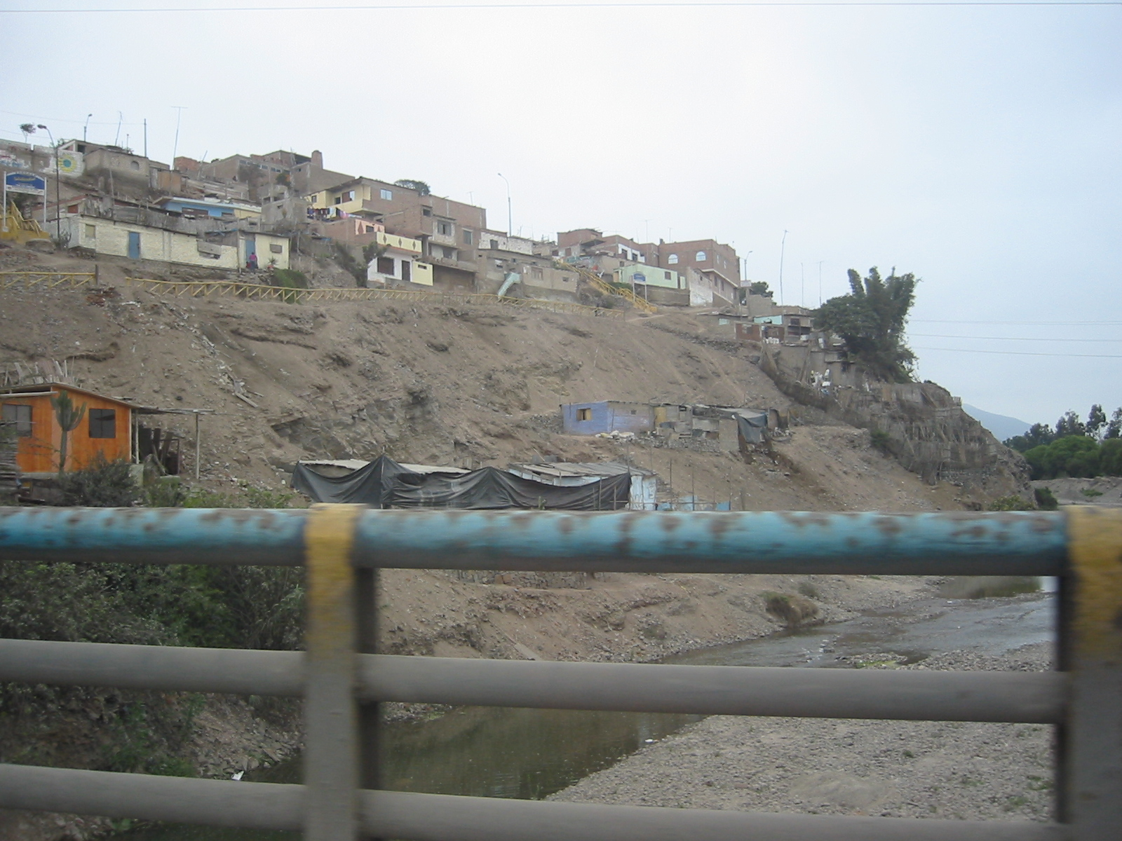 Housings near Lurin river.